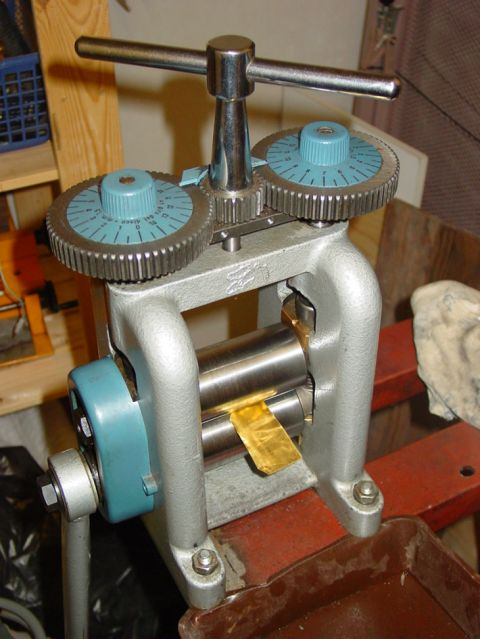 Rolling mill for cold rolling metals like this brass sheet. 22:17, 19 August 2005 Skatebiker 480x639 (57052 bytes) (Rolling mill for cold rolling metals like this brass sheet. PD )